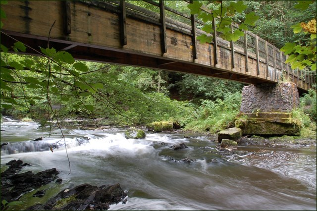 Footbridge, Clare Glen near Tanderagee (1). This bridge carries a path across the Cusher in Clare Glen. Continue to 521435.